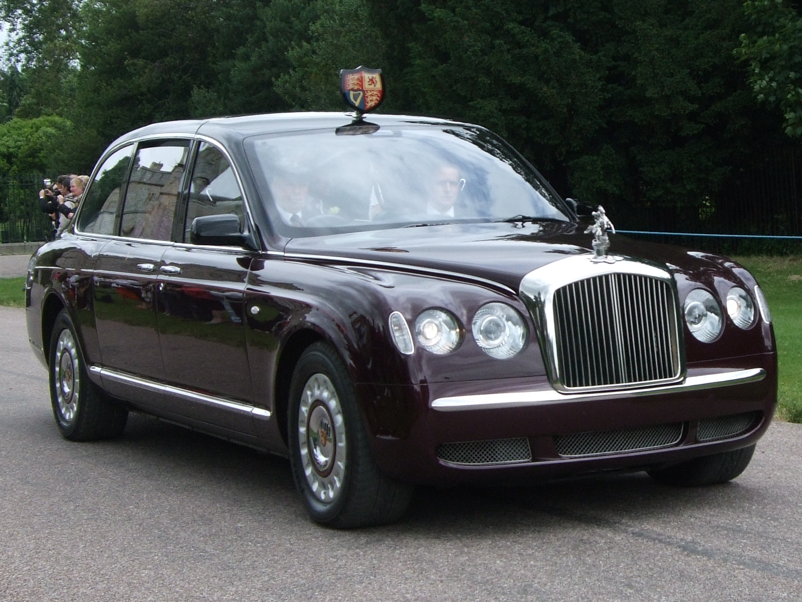 One of two State Bentleys